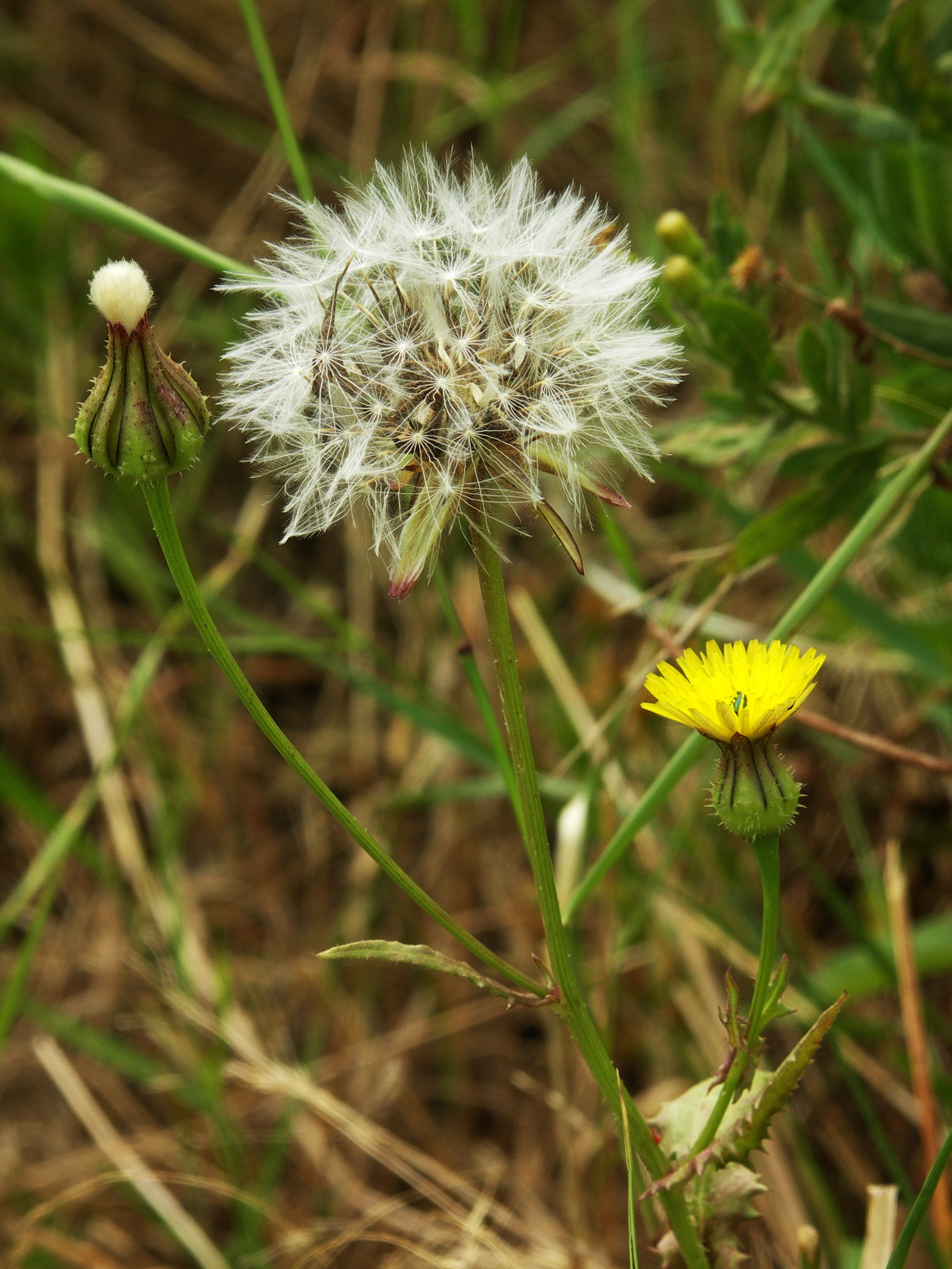 Wall hawkweed with flower and fruit (Hieracium murorum)